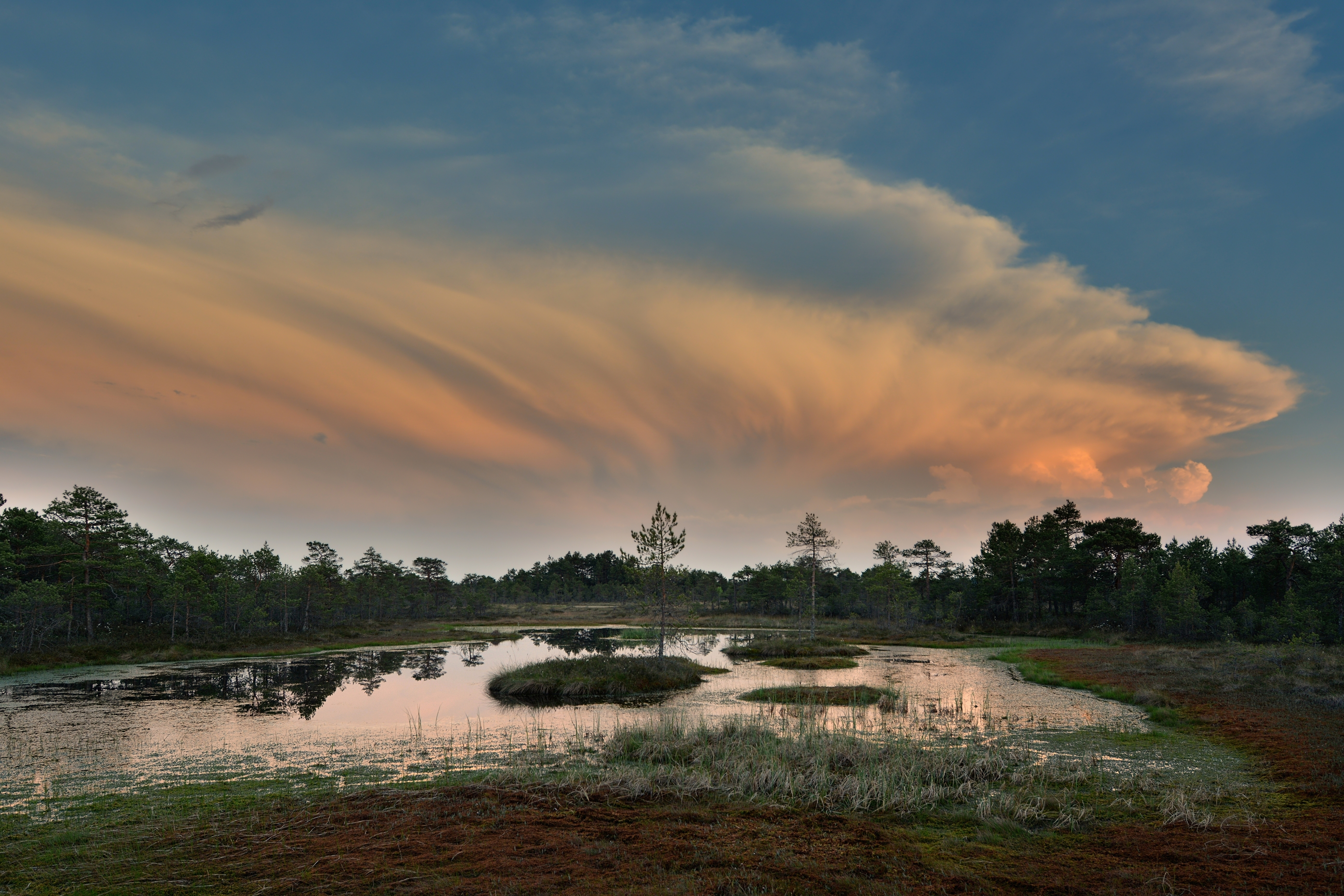 Mõrdama bog, Southwestern Estonia. In-Camera HDR.